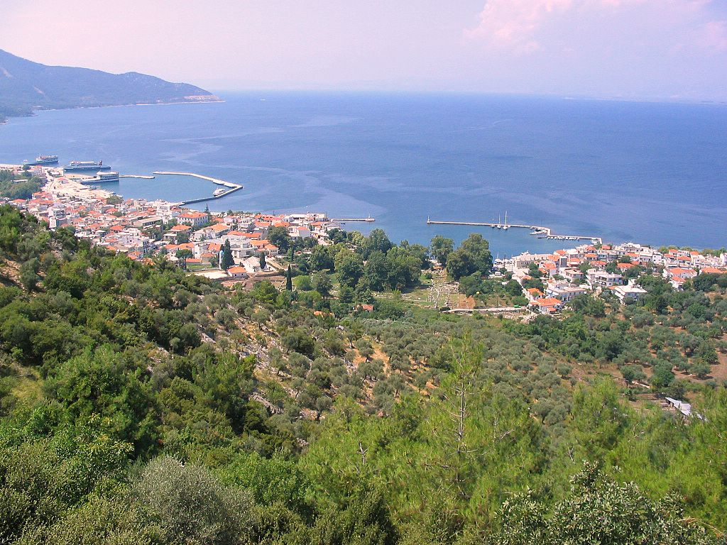 Limenas in Thasos island, Greece.